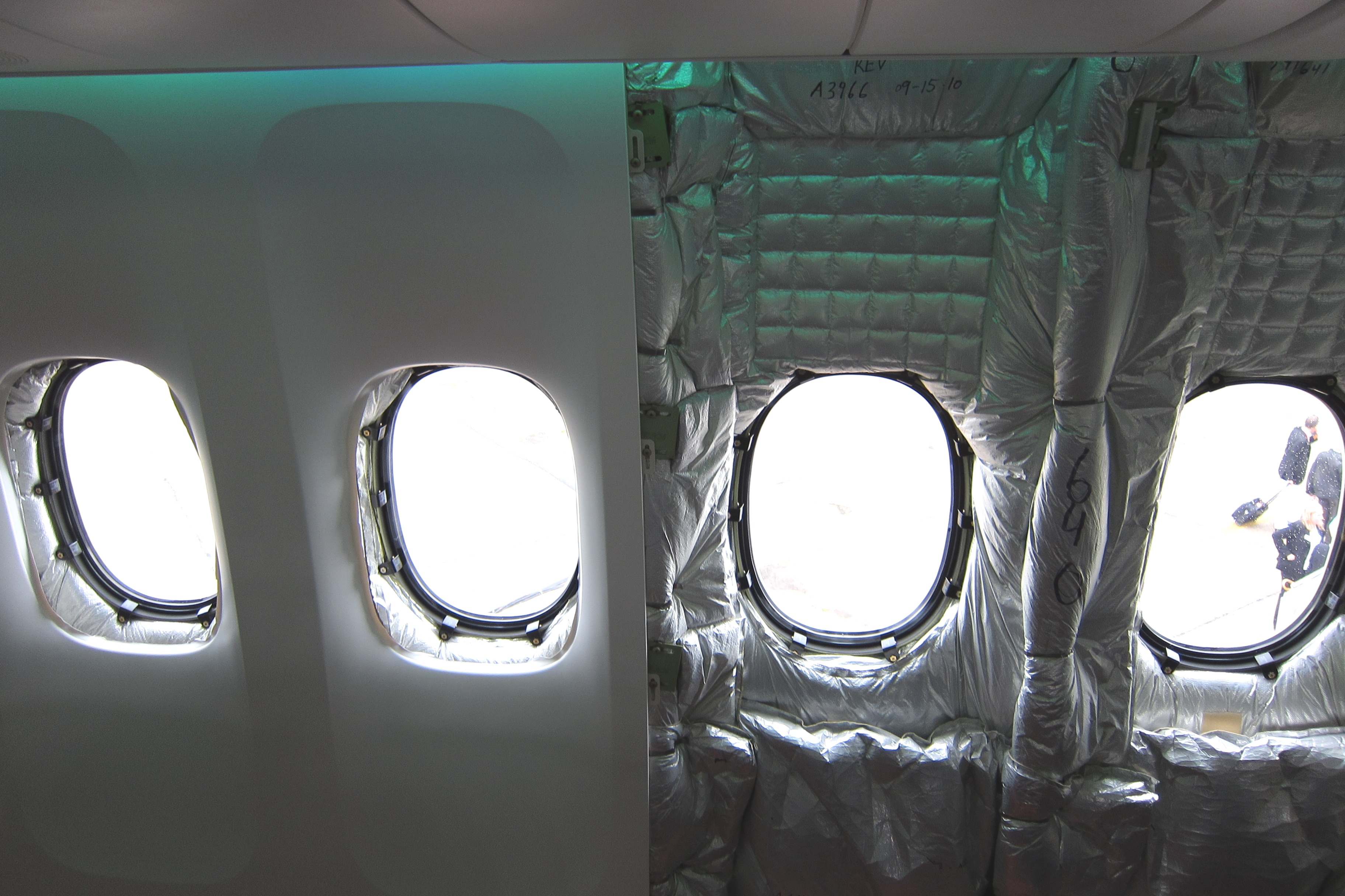 Insulation can be seen around the cabin windows inside the (uncompleted) cabin of the Boeing 747-8I prototype